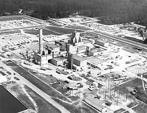 L-Reactor Facility. L Area, Savannah River Site, South Carolina. September 16, 1982. Published by the National Institute for Occupational Safety and Health in its "National Institute for Occupational Safety and Health Savannah River Site Mortality Study".